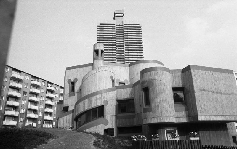 Köln, Colonia-Hochhaus Information added by Wikimedia users.